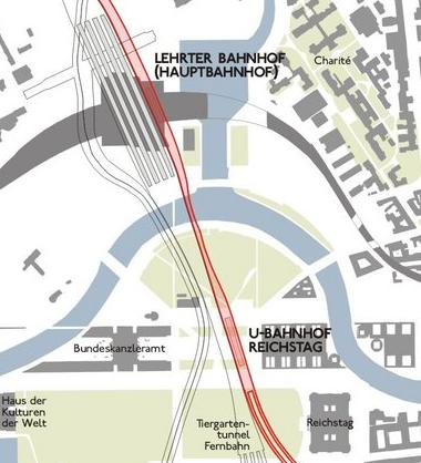 „Spreebogen“ of river Spree in the new German government-district in Berlin-Mitte.